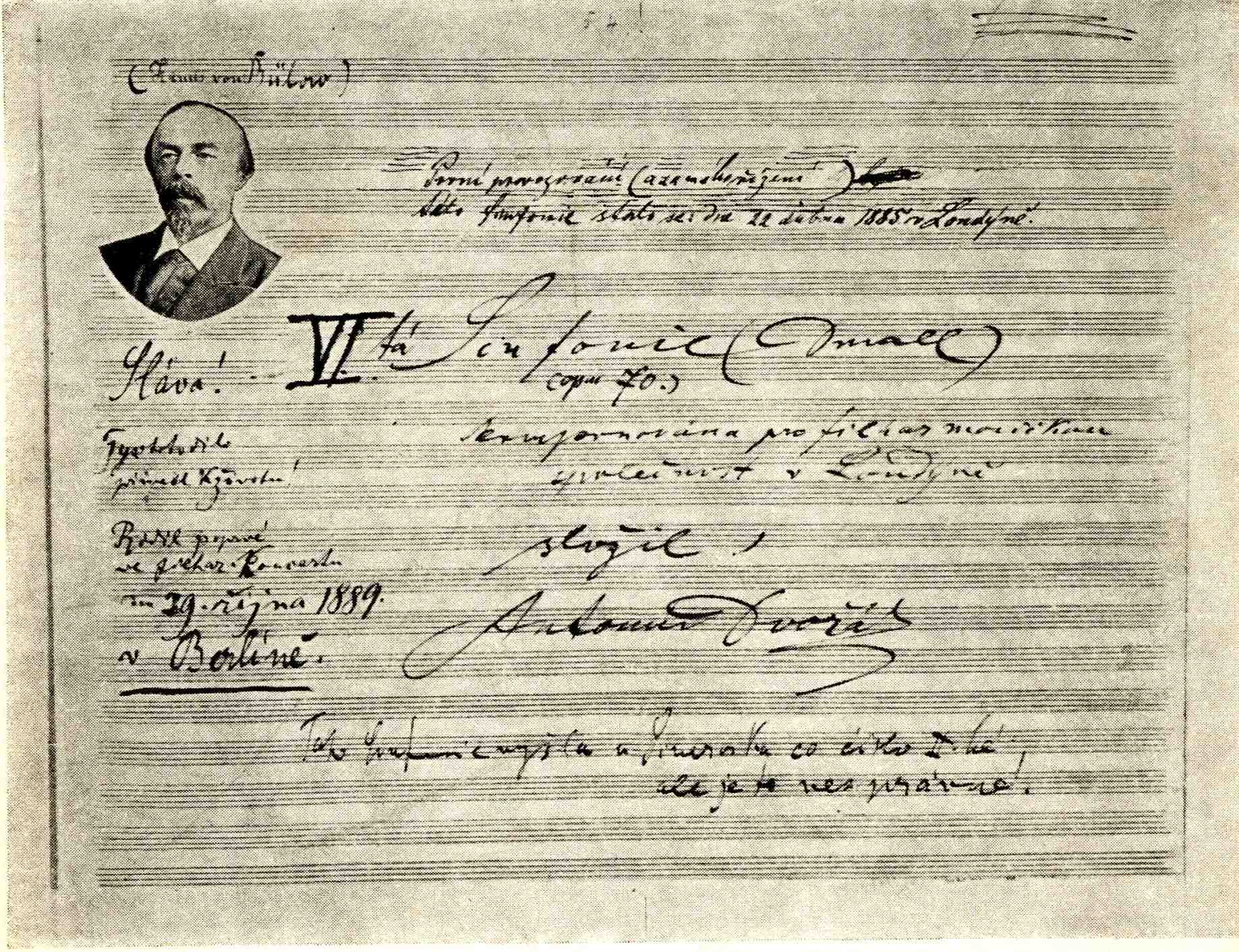 The title page of the score of Dvořák's seventh symphony